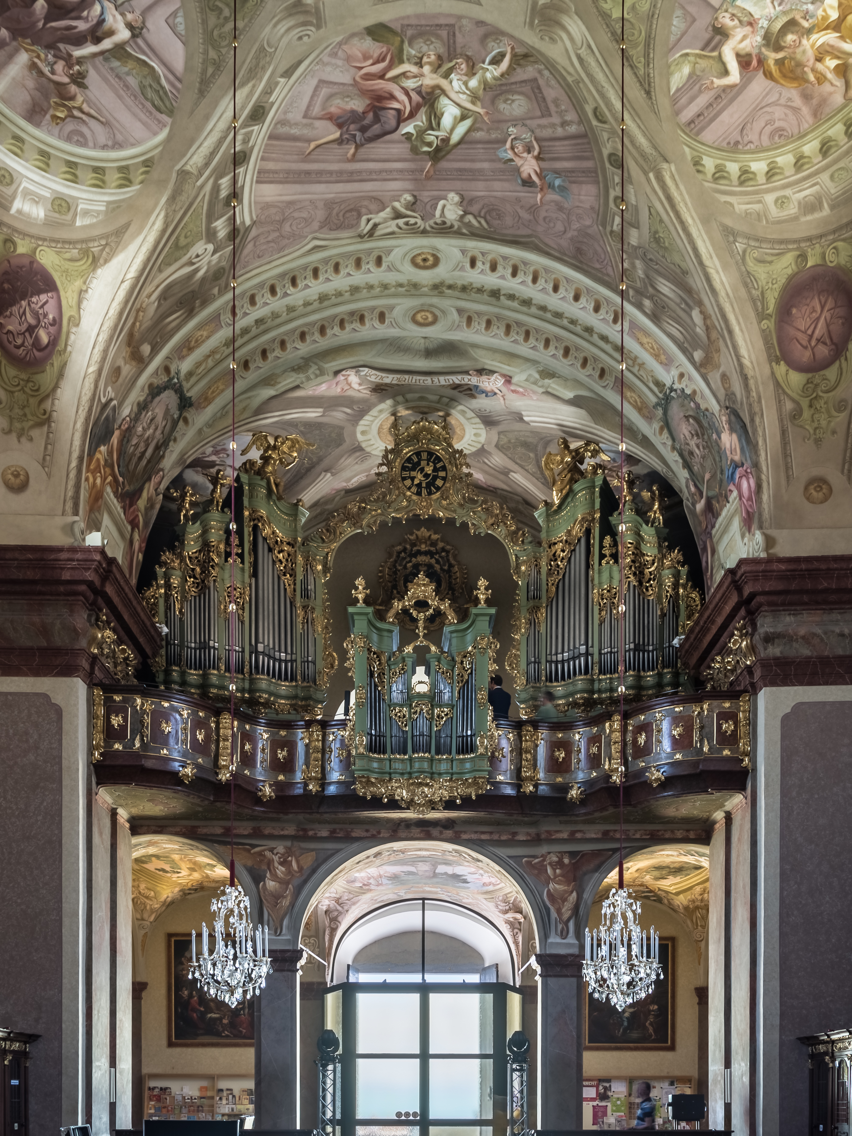 Organ of Maria Taferl Basilica, Lower Austria. Baroque case of the organ by Johann Hencke 1760.